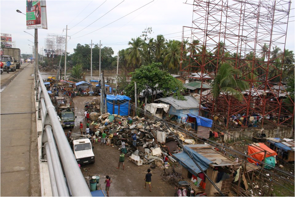 Damage in an unspecified location in Mindanao following the aftermath of Tropical Storm Washi (Sendong)